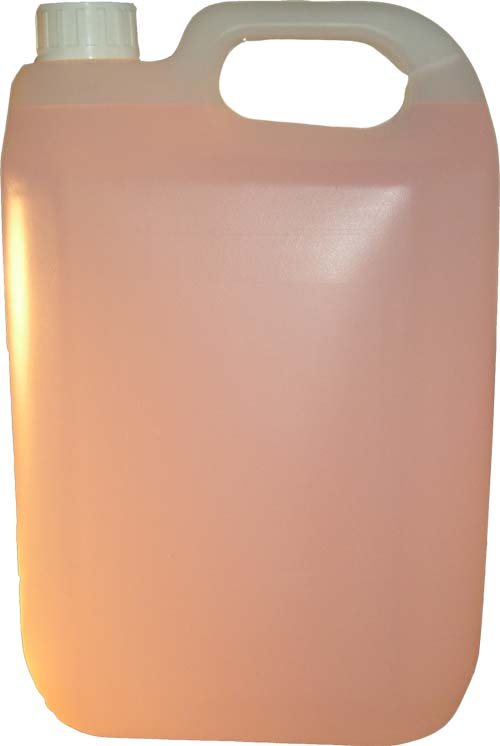 Windshield washer fluid